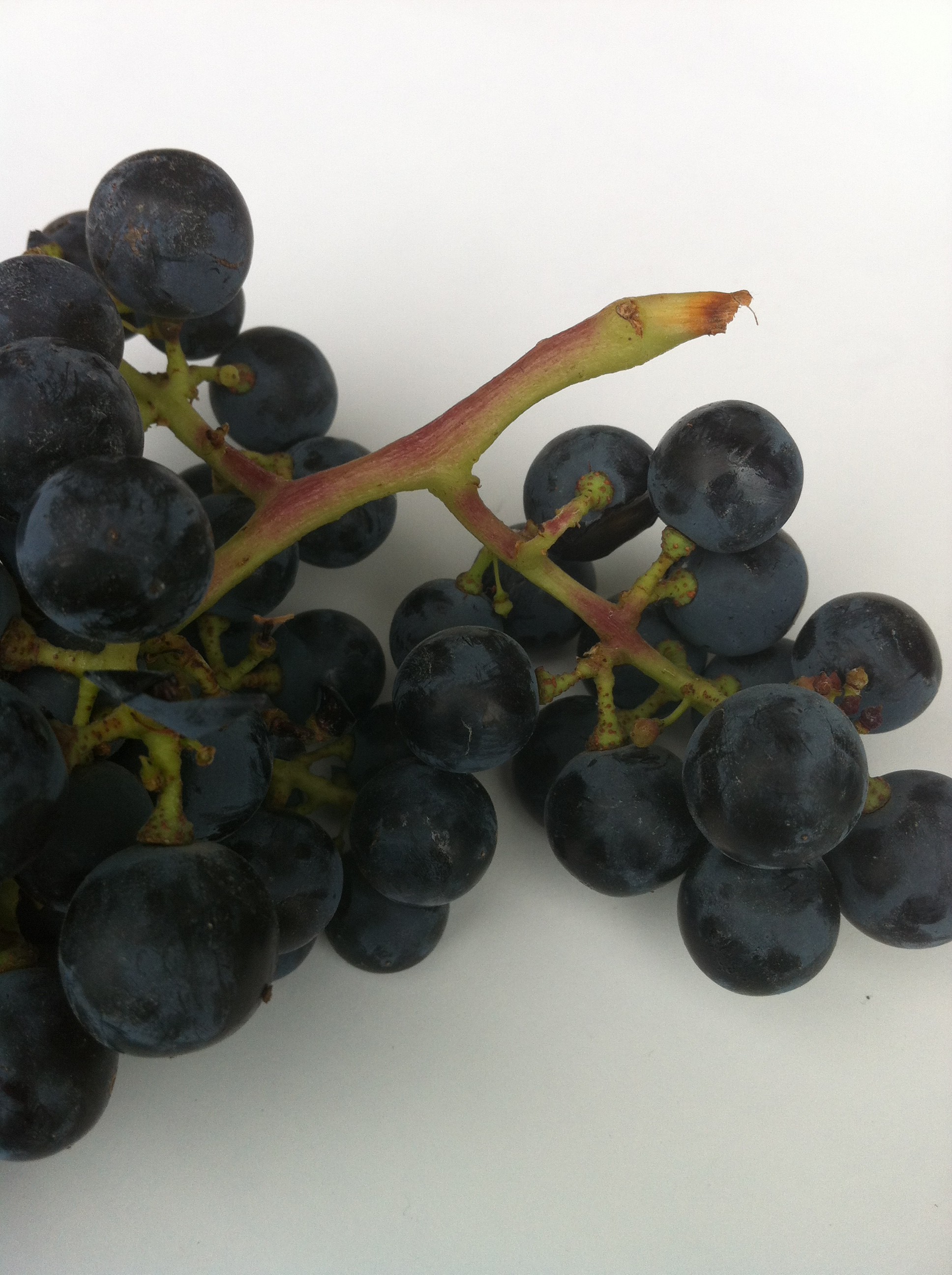 Merlot cluster with "wing" side cluster.